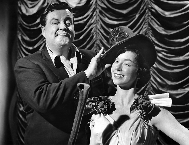 Publicity photo from The Jackie Gleason Show. Gleason and June Taylor dancer Margaret Jeanne get ready for St. Patrick's Day.